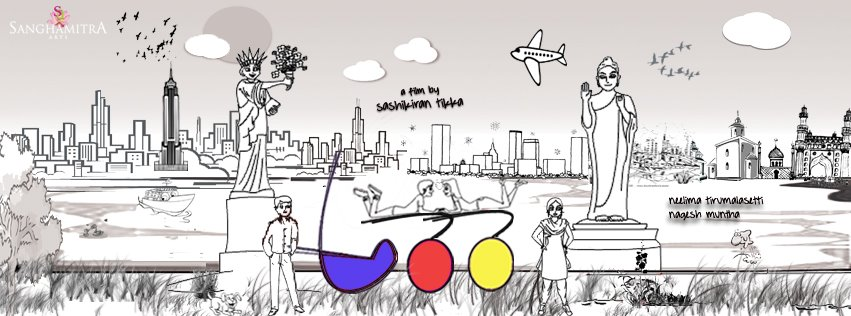 This image file is the Poster of the Telugu Feature Film titled 'Areyrey'